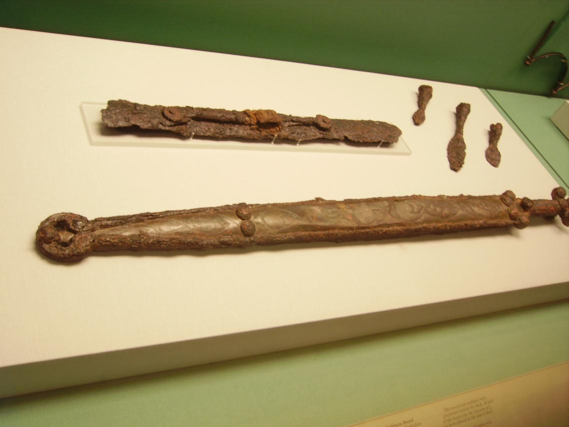 The Kirkurn sword from British Museum